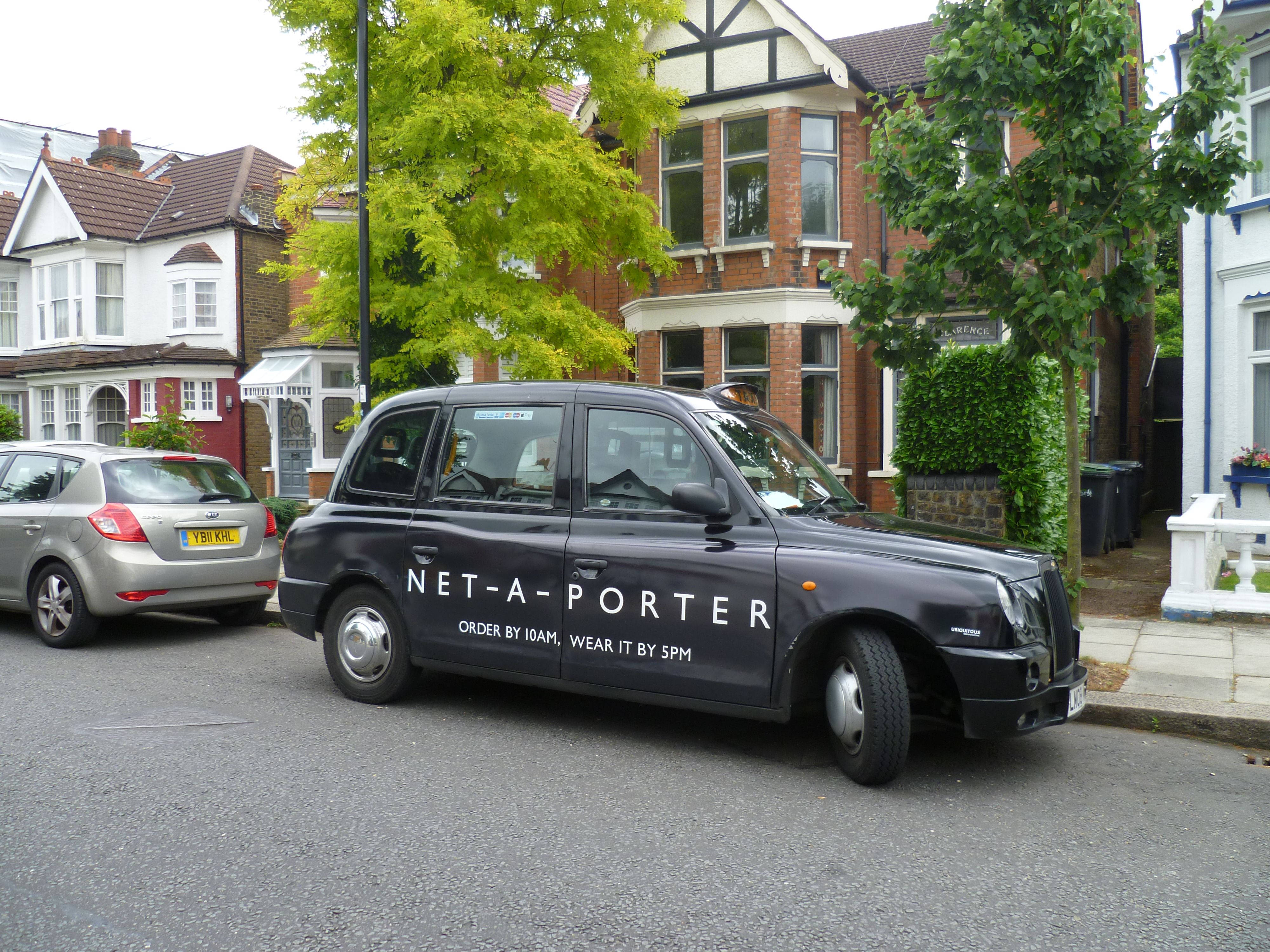 London